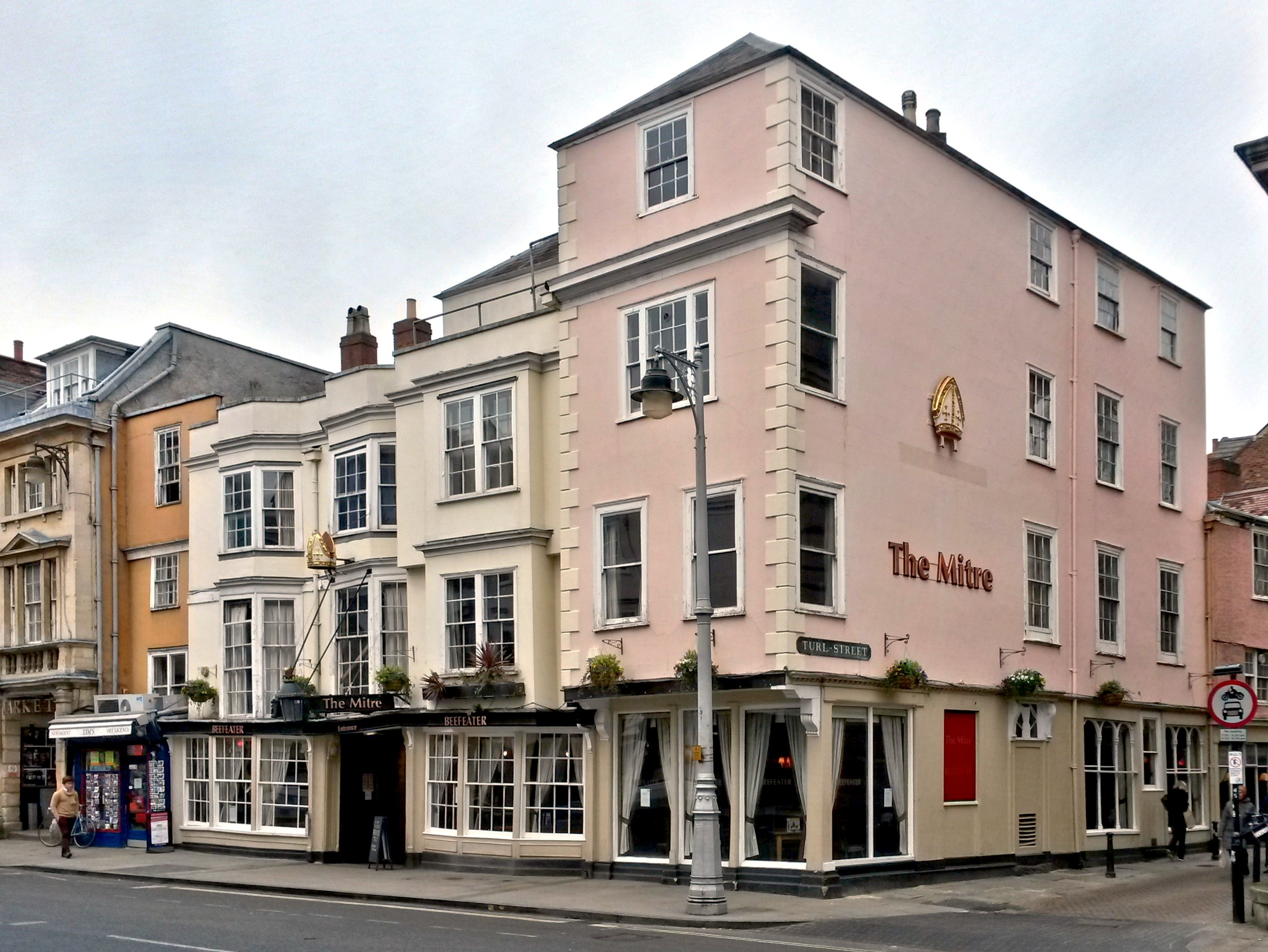 The Mitre Hotel, located on the High Street, is one of Oxford's oldest pubs and is now a Beefeater restaurant. It is a Grade II* listed building.